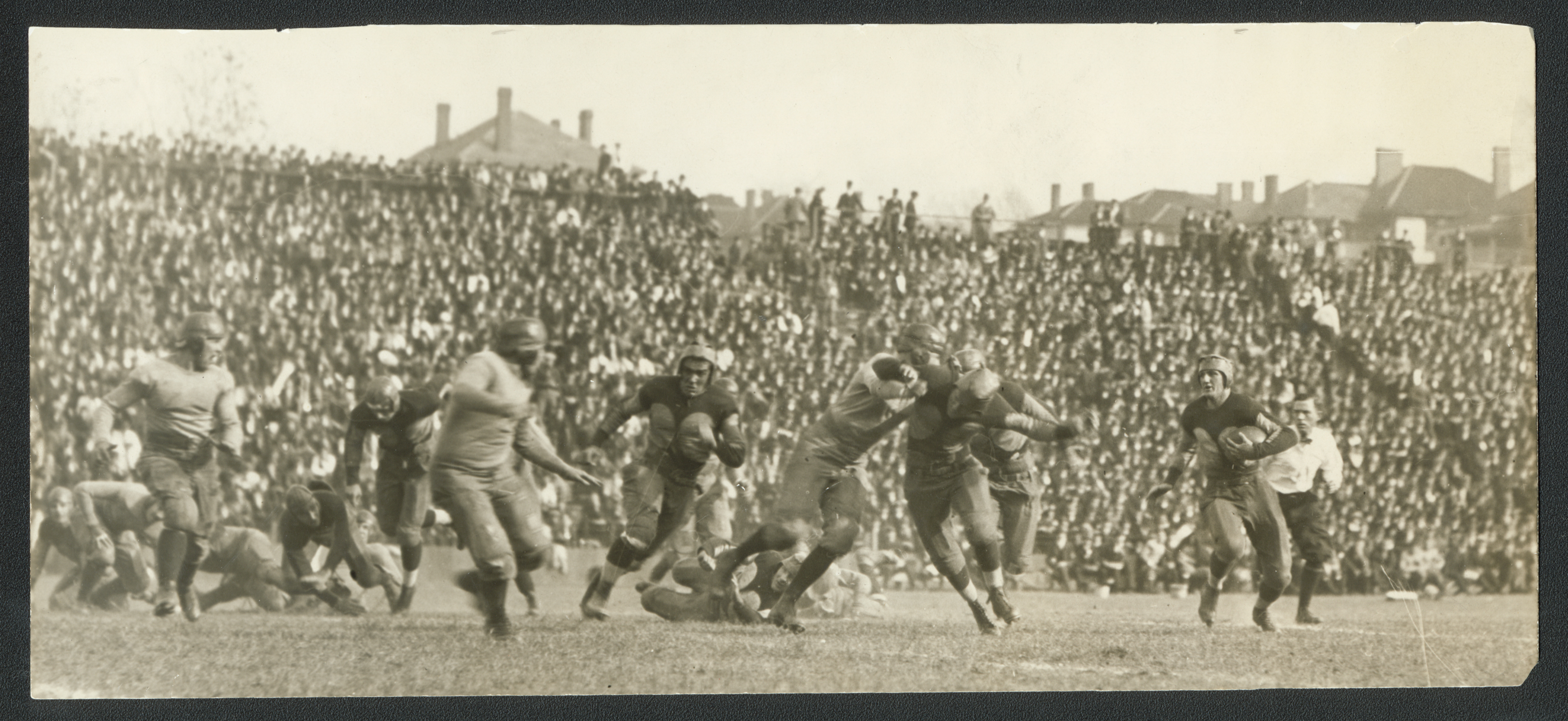 "Brewster with ball. McDonough running interference."